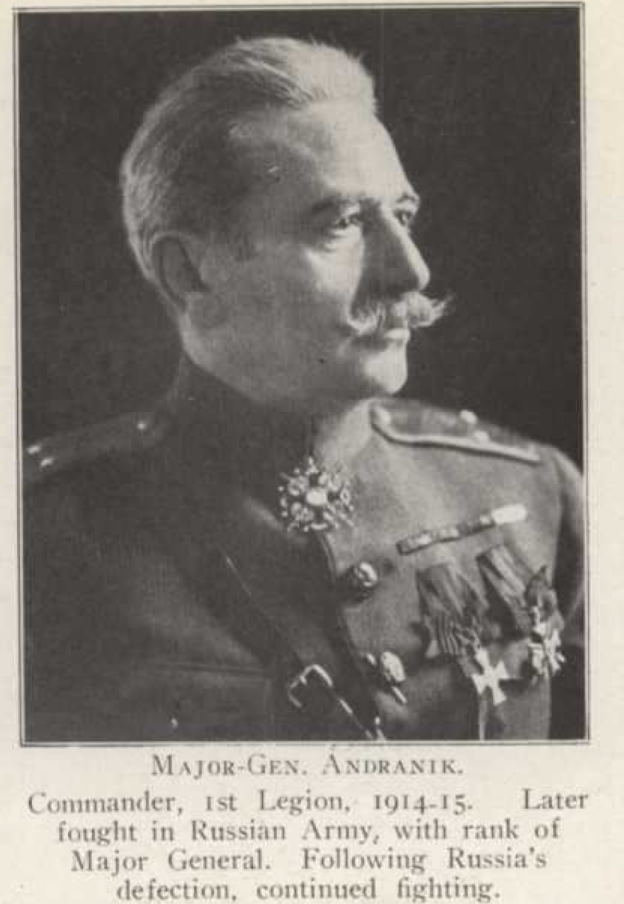 General Andranik